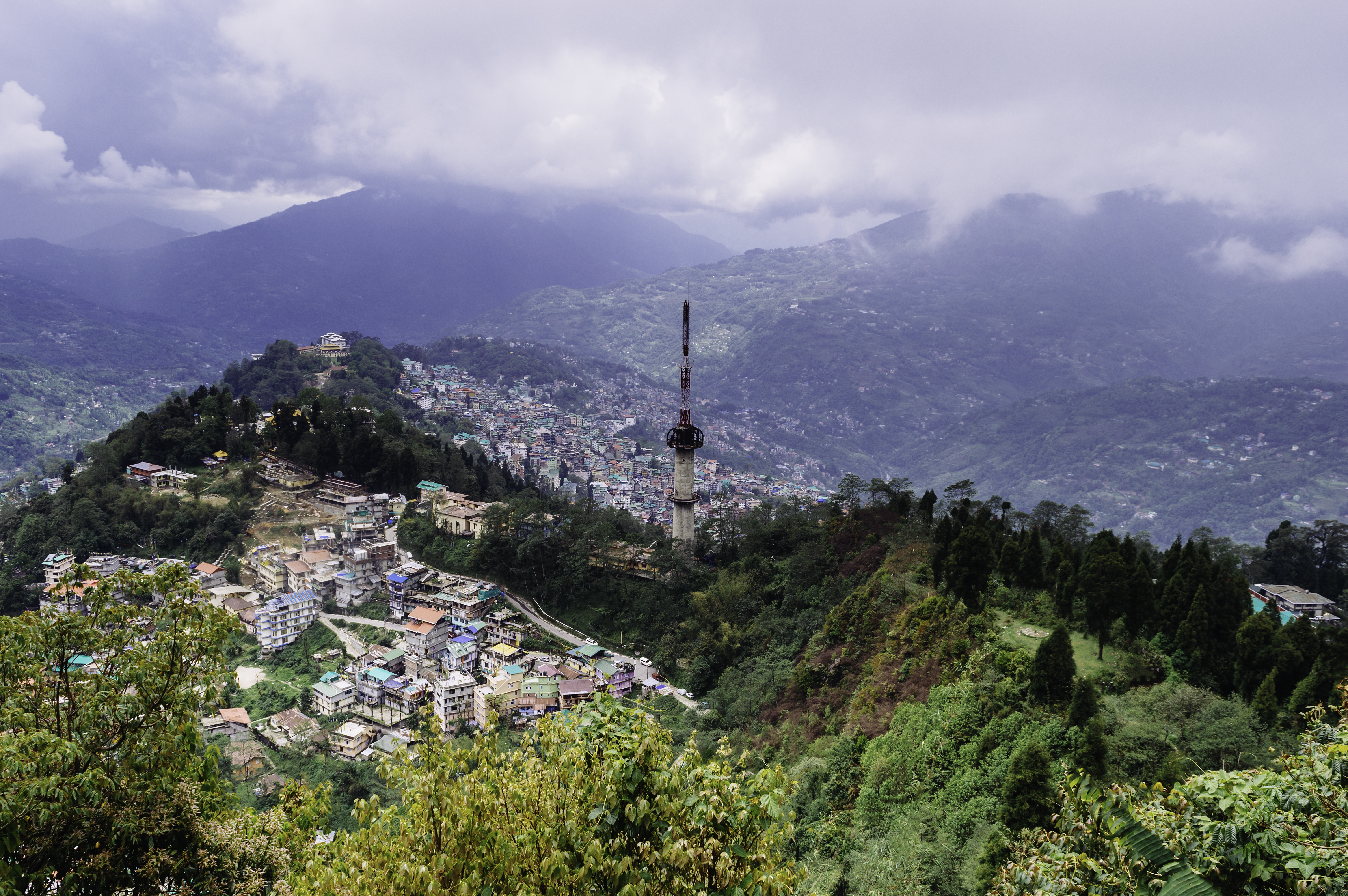 Situated 6,500 meters above sea level on a hilltop, Ganeshtok is a popular Ganesh temple in Sikkim and can be reached after a 7 kilometer ascent from the main town of Gangtok. Located near Tashi View point at a hill adjacent to the television tower of Sikkim